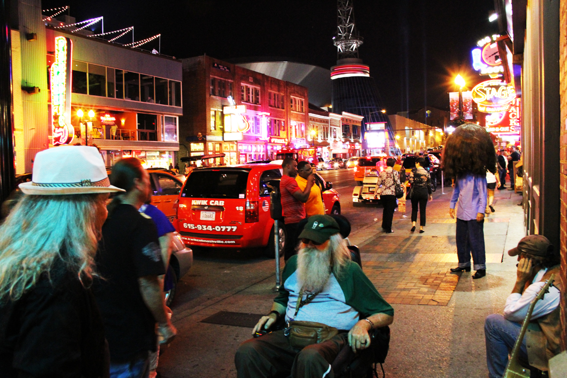 TearHead by Nina Staehli